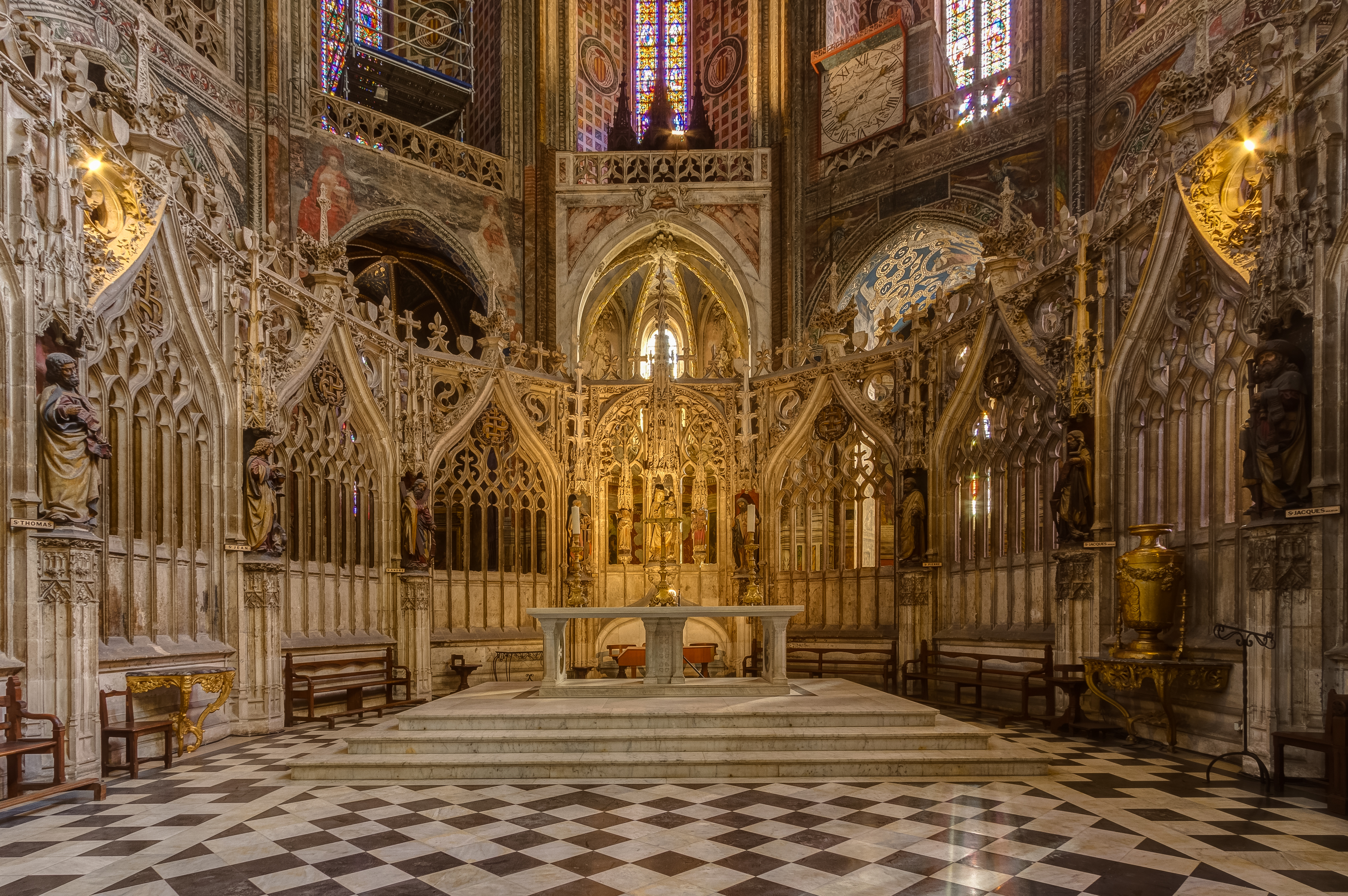 Altar and choir of Cathedral of Saint Cecilia of Albi.